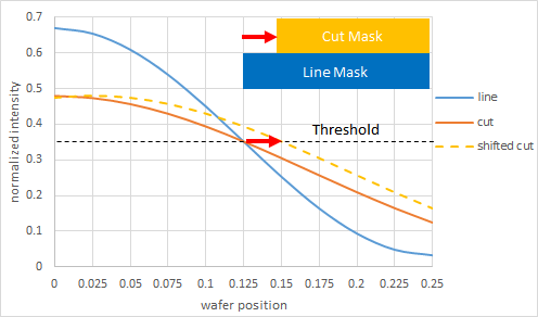 The overlay between the line pattern and cut pattern is important. Here both are aligned to print an edge at the threshold intensity (indicated by dotted line). A shift of the cut mask relative to the line mask would lead to an edge shift, leaving a portion of the line uncut. Moreover, a dose error shifts the image curve vertically, affecting the size of the cut as well as the edge position.